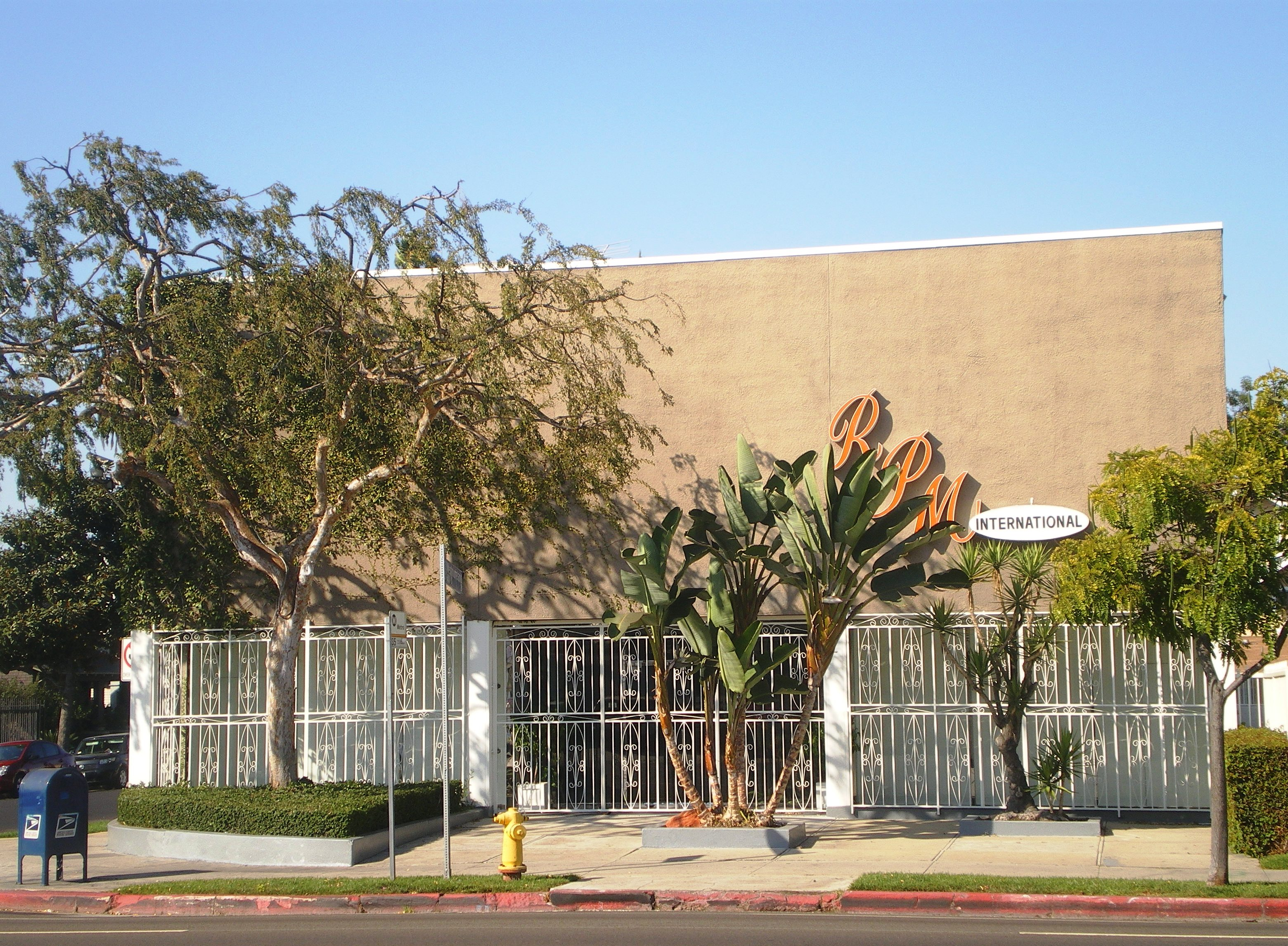 Ray Charles Worldwide Offices and Studios, 2107 W. Washington Blvd., Los Angeles, CA (HCM #776)